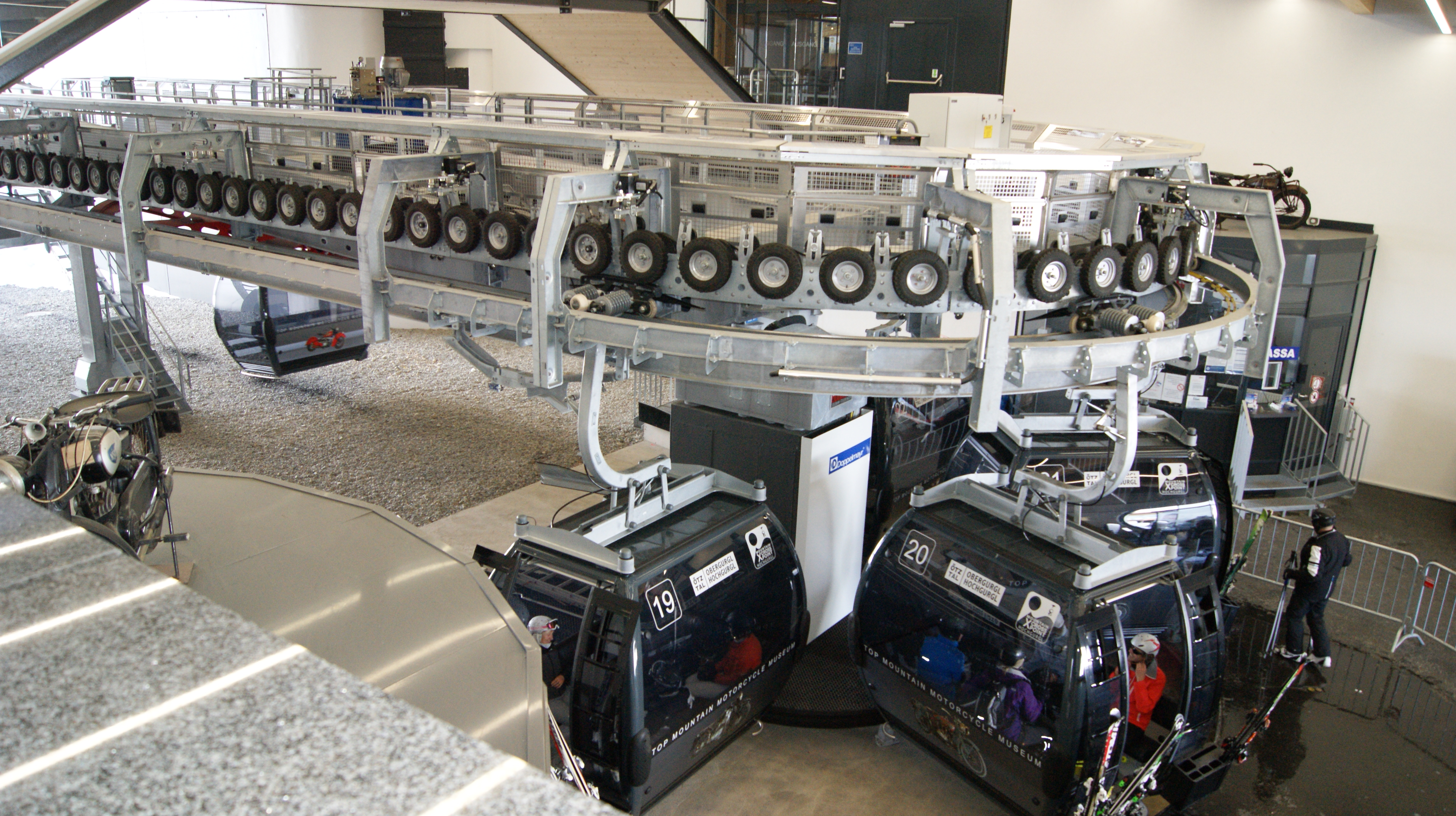 10-person gondola lift at Kirchenkar, next to the Top Mountain Motorcycle Museum in the Oetztal, Timmelsjoch. -Kirchenkarbahn I.